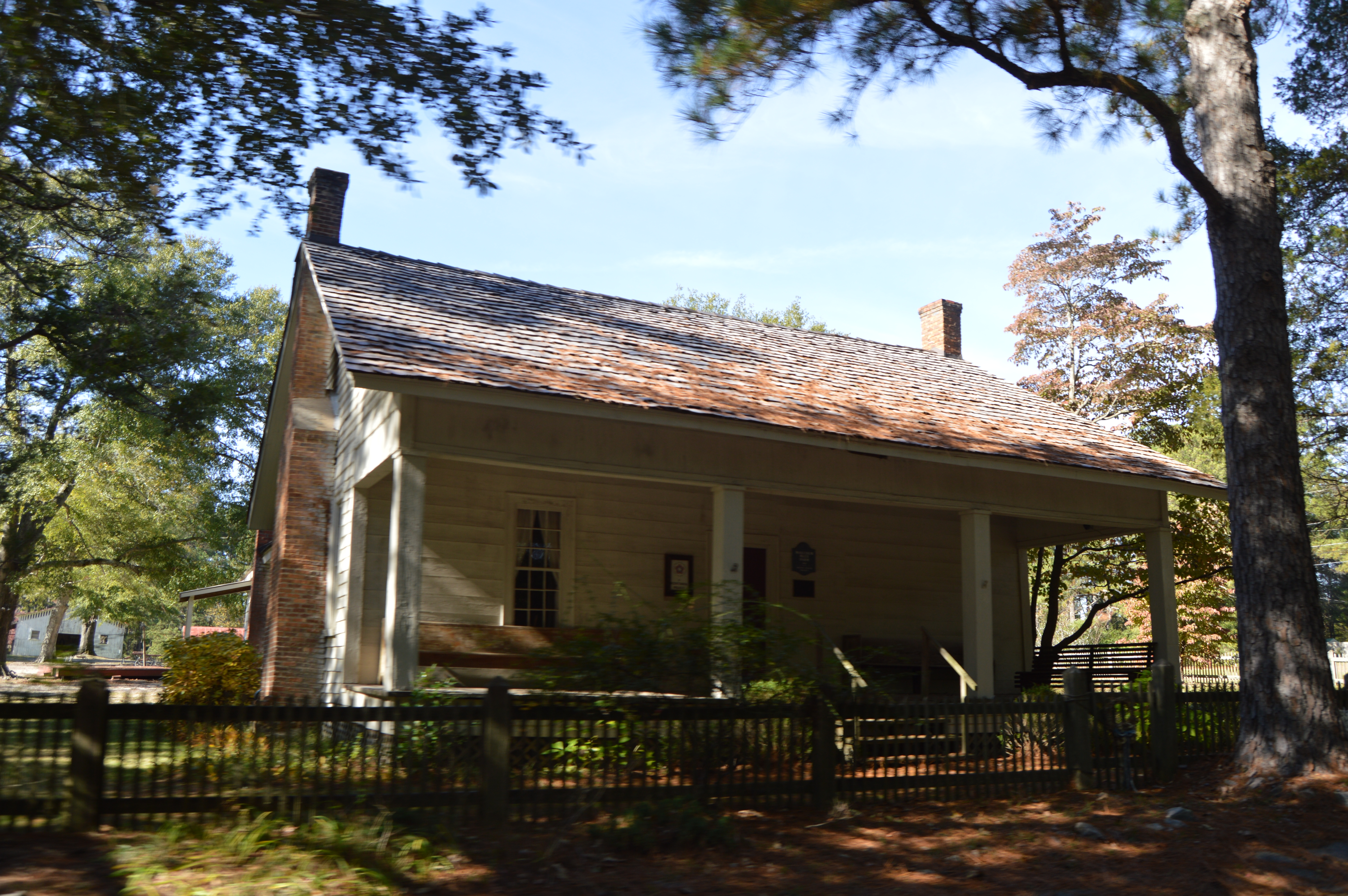 Front of the farmhouse at the Malcolm Blue Farm, located on Bethesda Road in Aberdeen, North Carolina, United States. Built in 1825, it is listed on the National Register of Historic Places along with the rest of the farm.